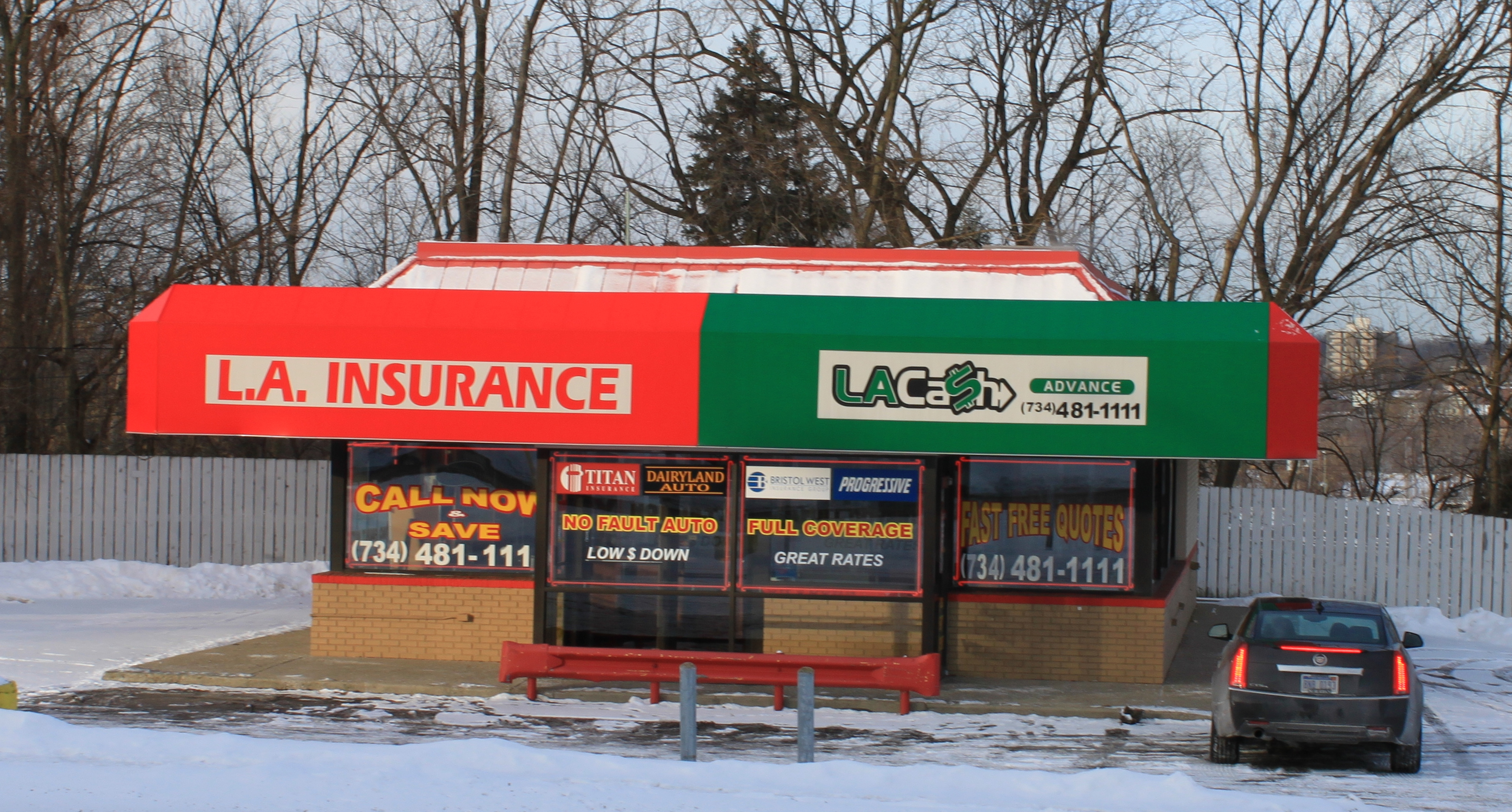 L.A. Insurance office, 420 East Michigan Avenue, Ypsilanti, Michigan